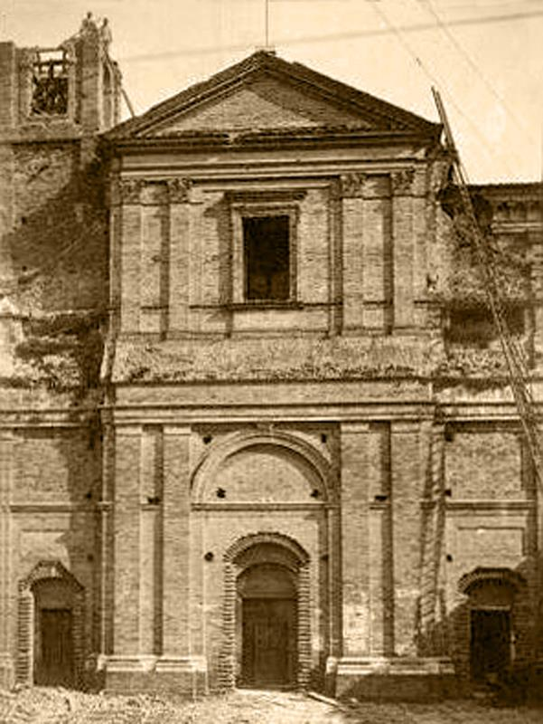 The church of Padri Teatini (also known as "S. Antonio da Padova" or "S. Giorno Antico) after 1916 earthquake.